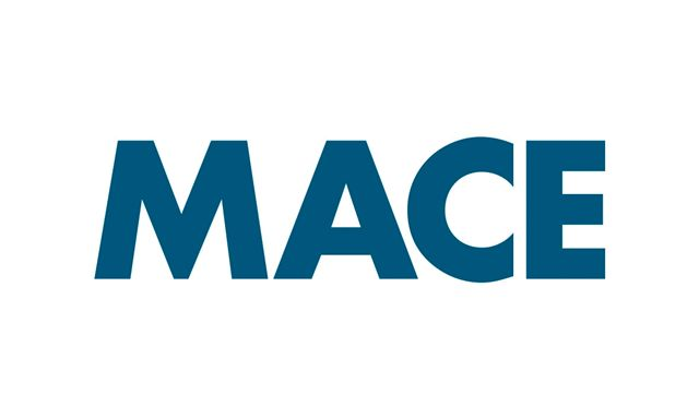 The logo of MACE Northern Ireland (2009-present)